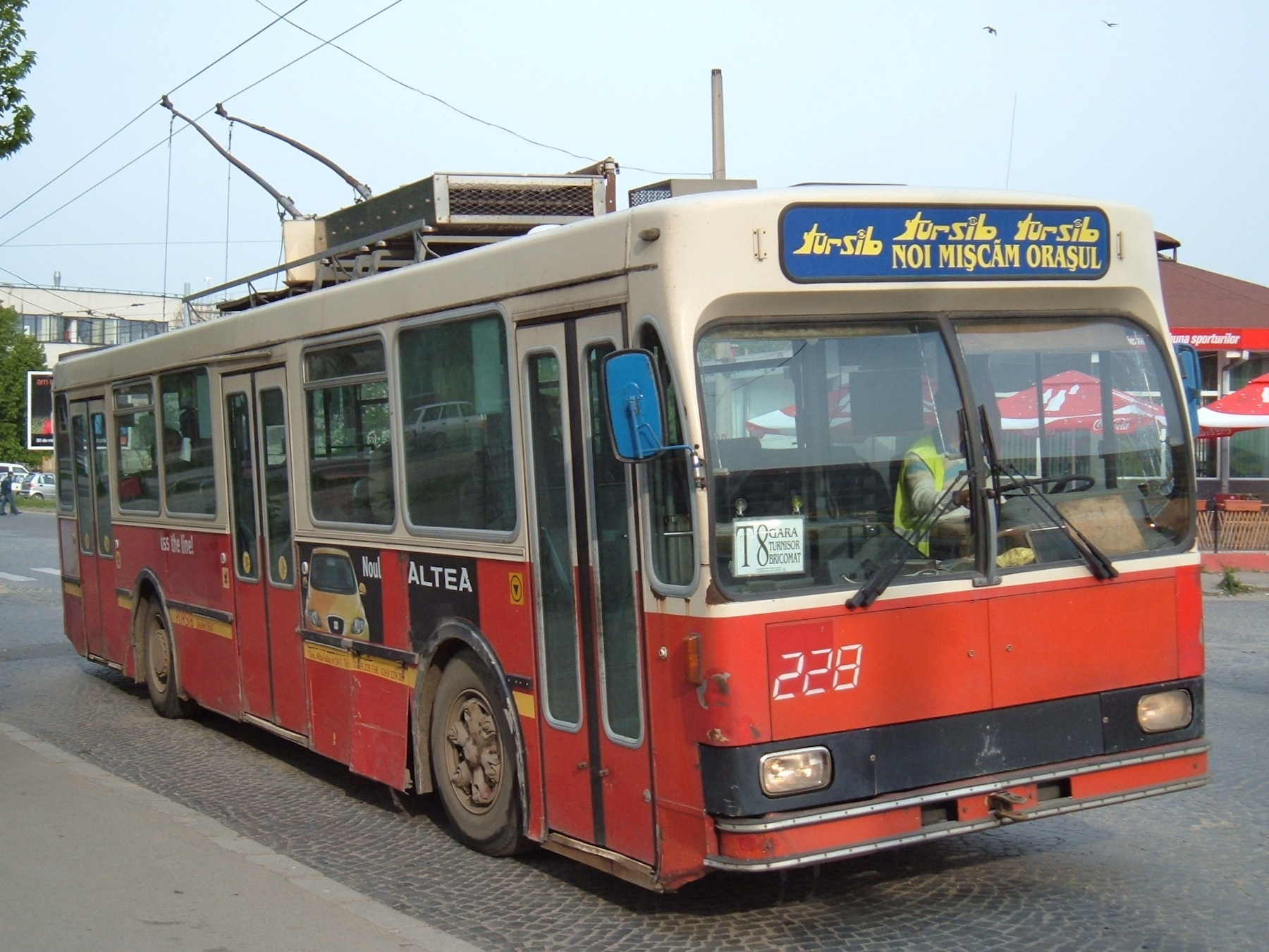 Sibiu trolleybus 228 is ex-Biel/Bienne 17, built in 1980 by FBW. It was acquired secondhand by Sibiu in 1997 and until 2001 carried Sibiu number 692. It is shown on route T8, still wearing Biel colors.